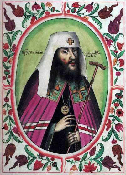 Patriarch Nikon